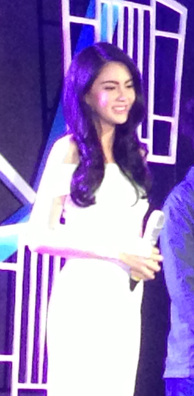 Davika Hoorne at Peemak press conference.